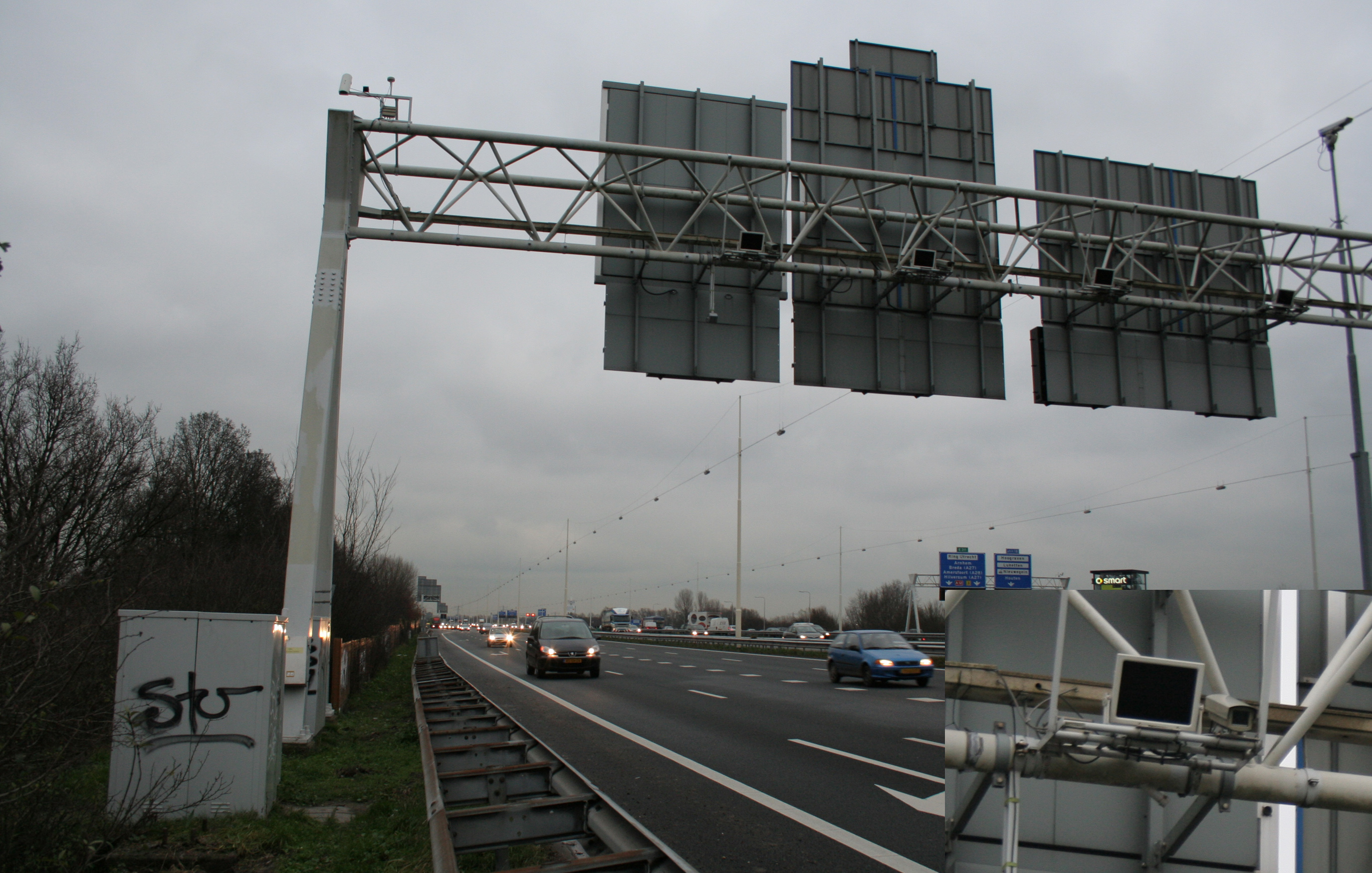 SPECS-speed camera in Utrecht, The Netherlands